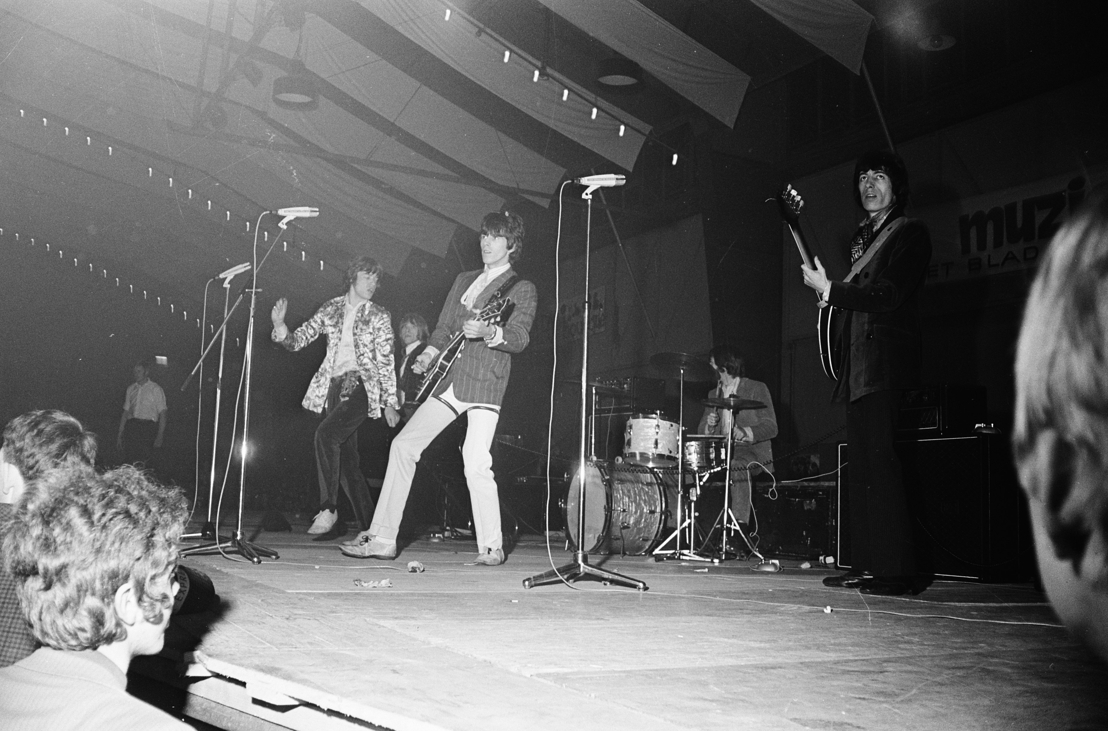 Rolling Stones in concert, Houtrusthallen The Hague (NL), 15 April 1967